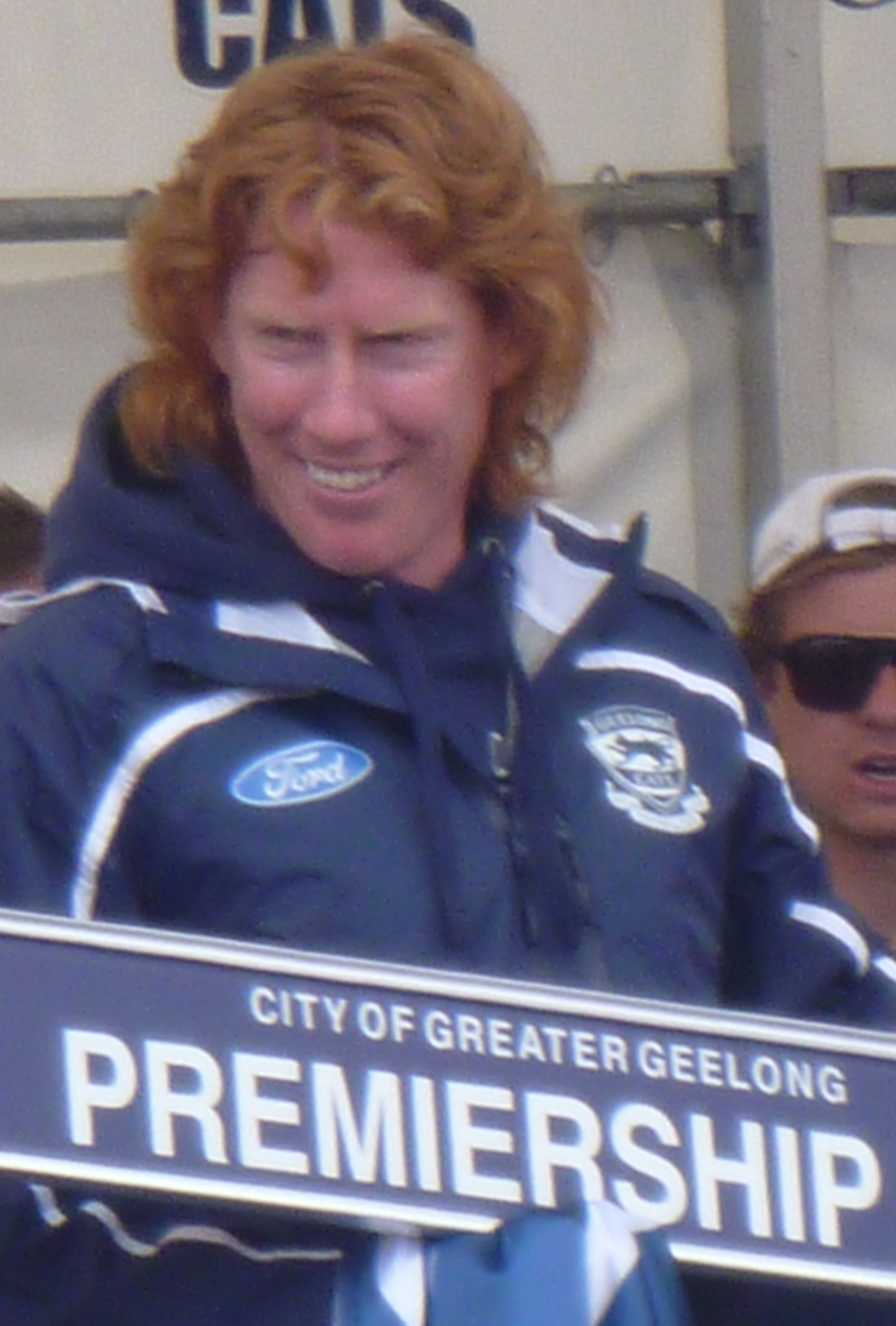 Cameron Ling on the prowl, looking for butch women.